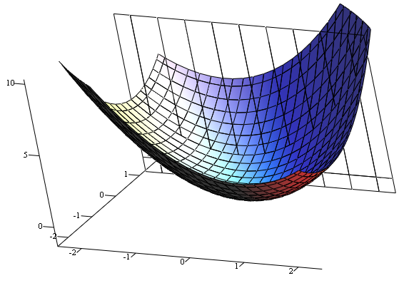 Graph of xx+xy+yy=z and y=1 for teaching partial derivatives. Made with Mathcad